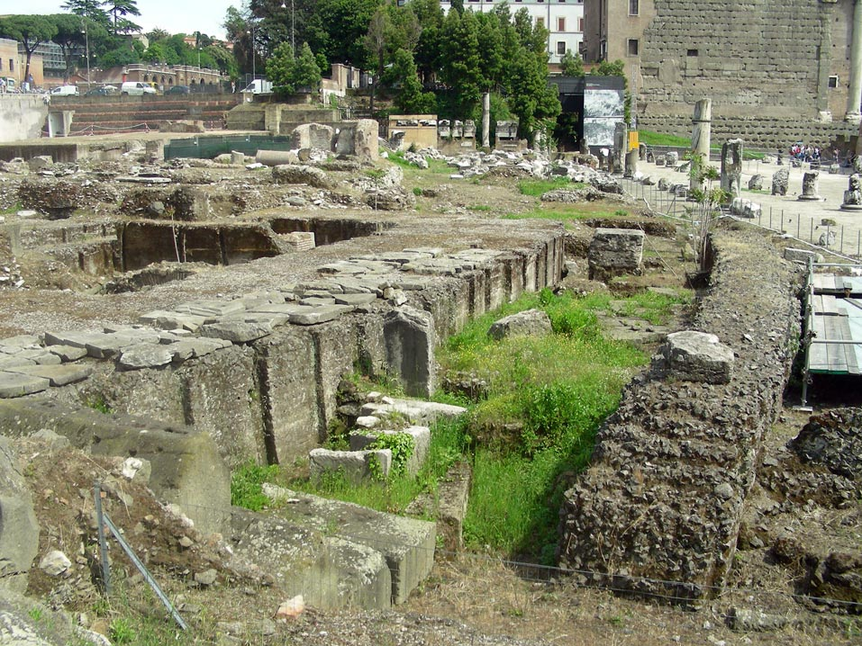 Rome, Nerva's Forum (Imperial Forums), remains of a temple foundation on short southwest side